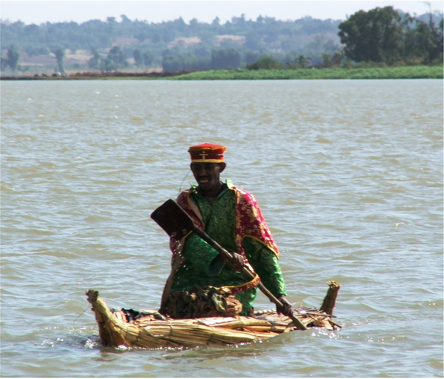 A priest of the Ethiopian Orthodox Church on his way to work on Lake Tana, Ethiopia, near Bahir Dar.